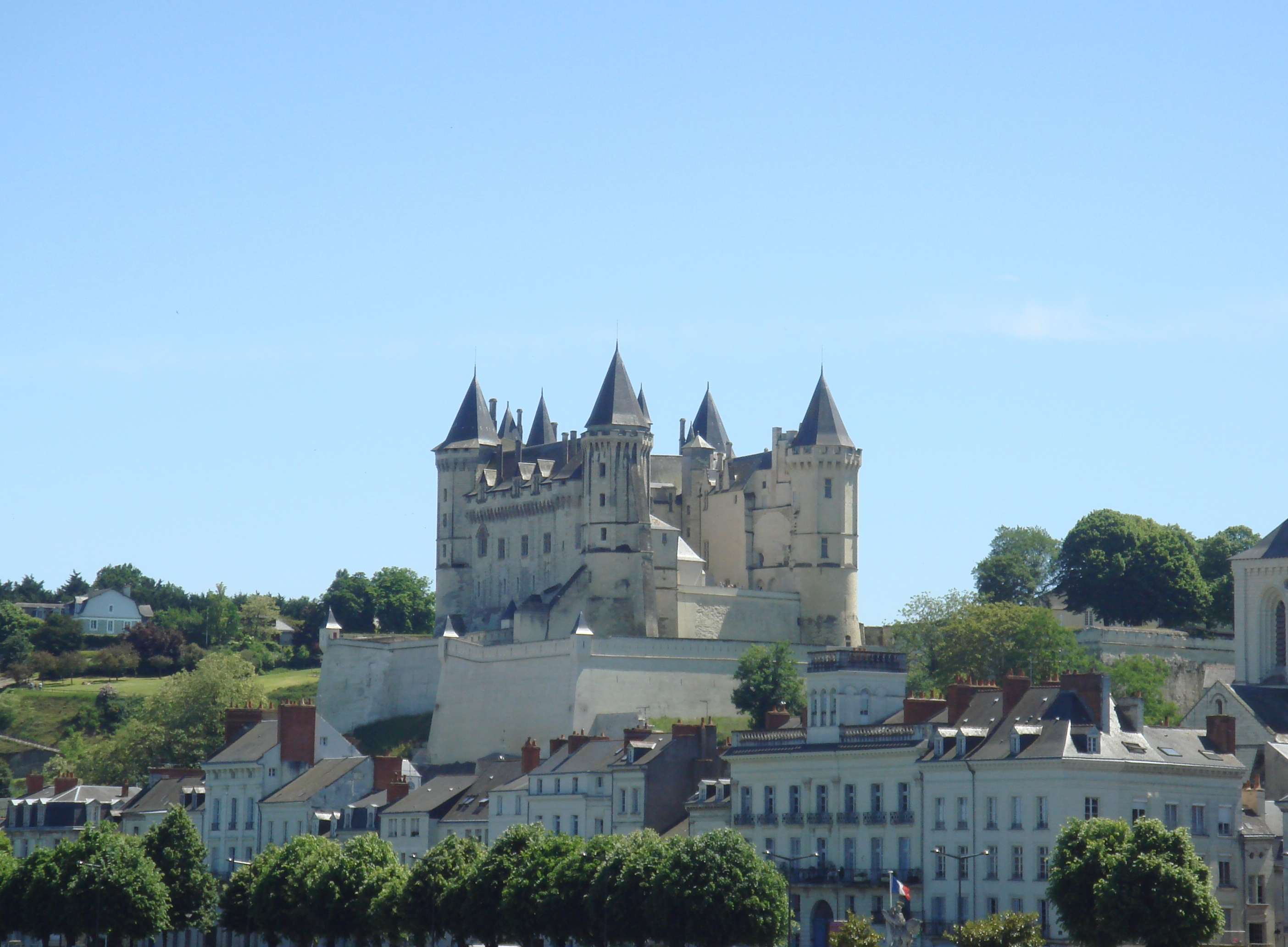 Castle_of_Saumur_from_the_bridge